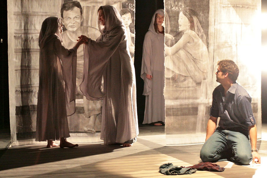 Jason watches the voices after the death of Number 18 in the Canadian play She Has a Name